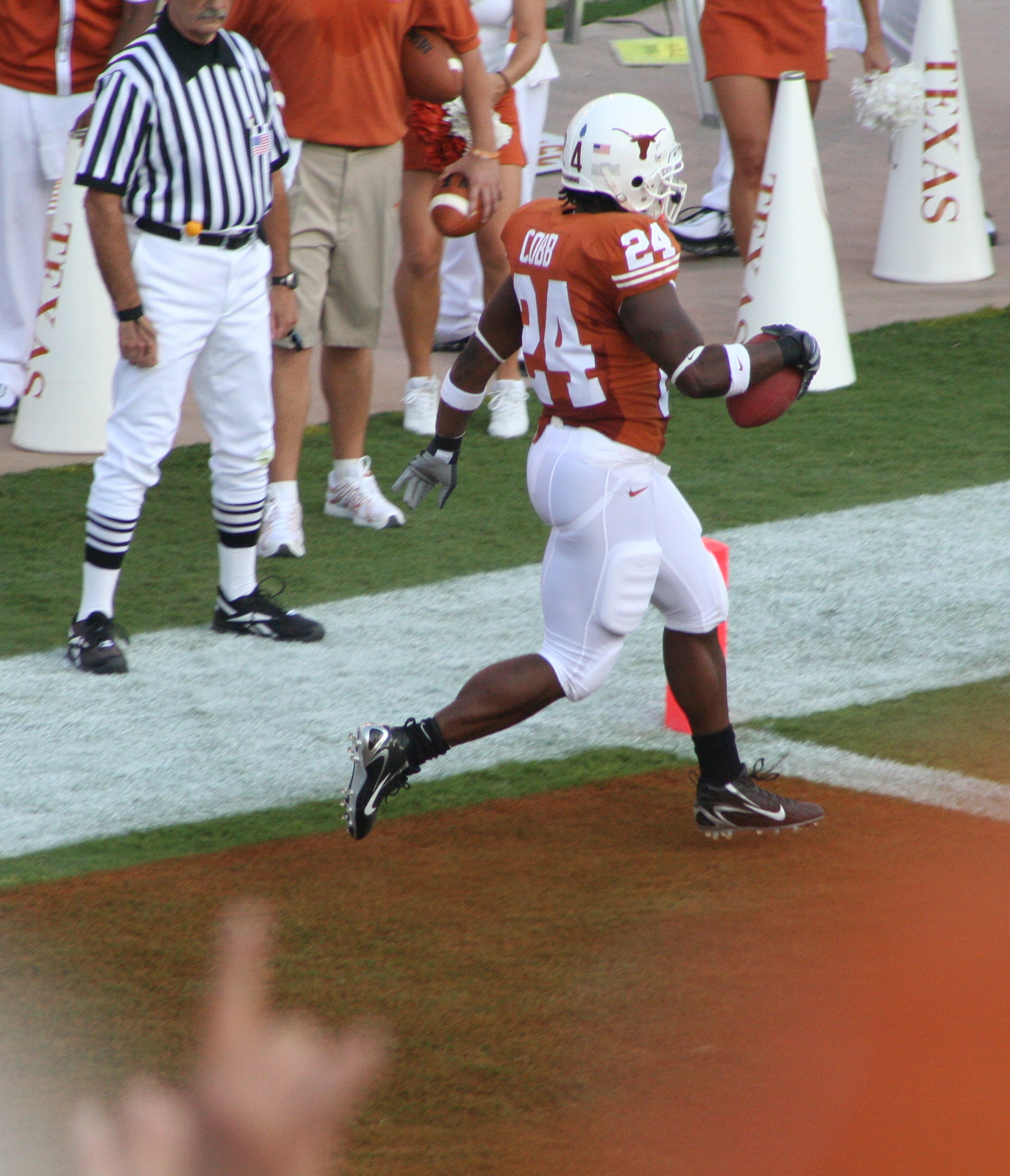 2007 Texas Longhorns football team - Cobb scores on a touchdown pass against Arkansas State